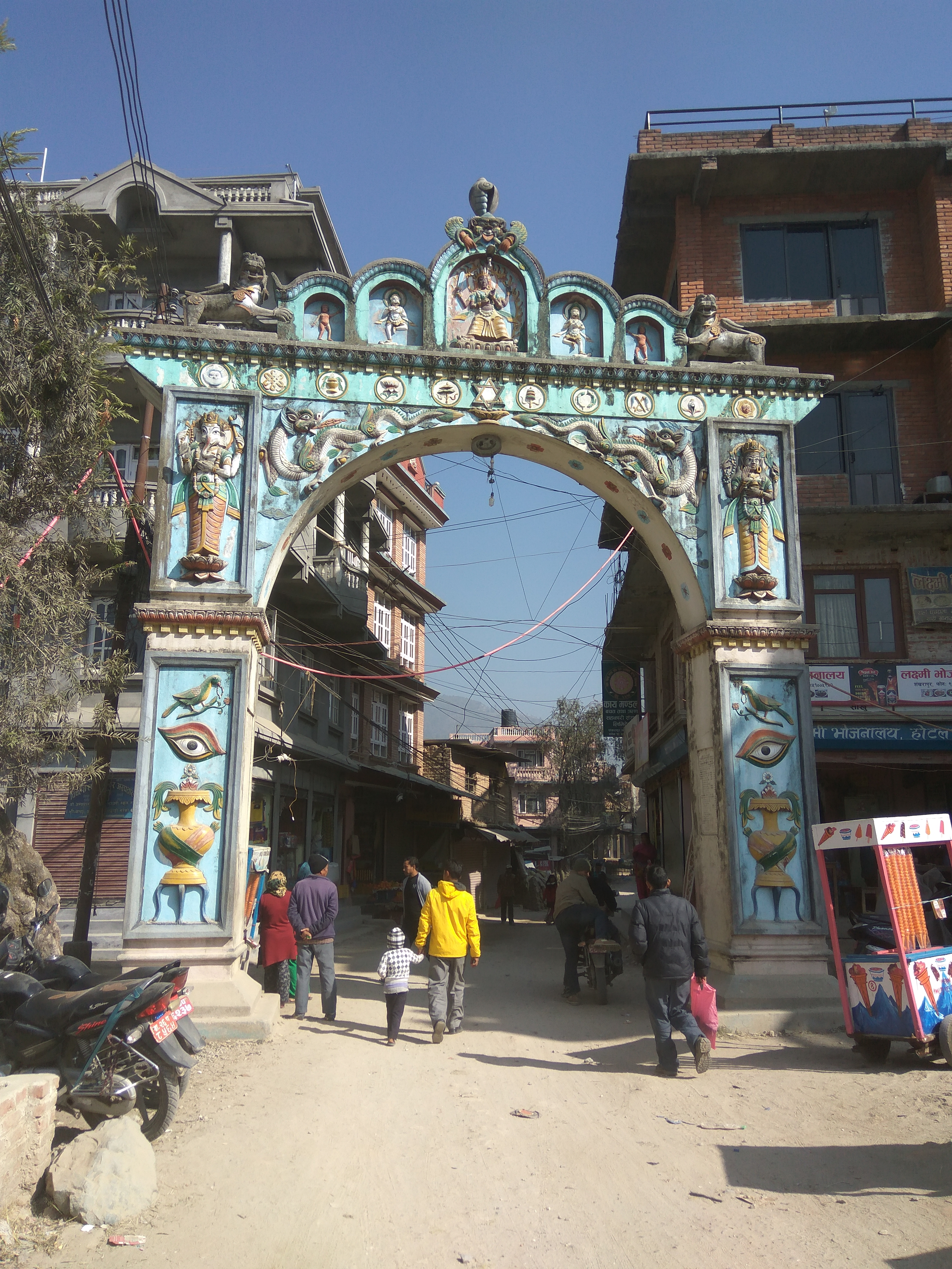 Welcome Gate at Sankhu, Kathmandu, Nepal.